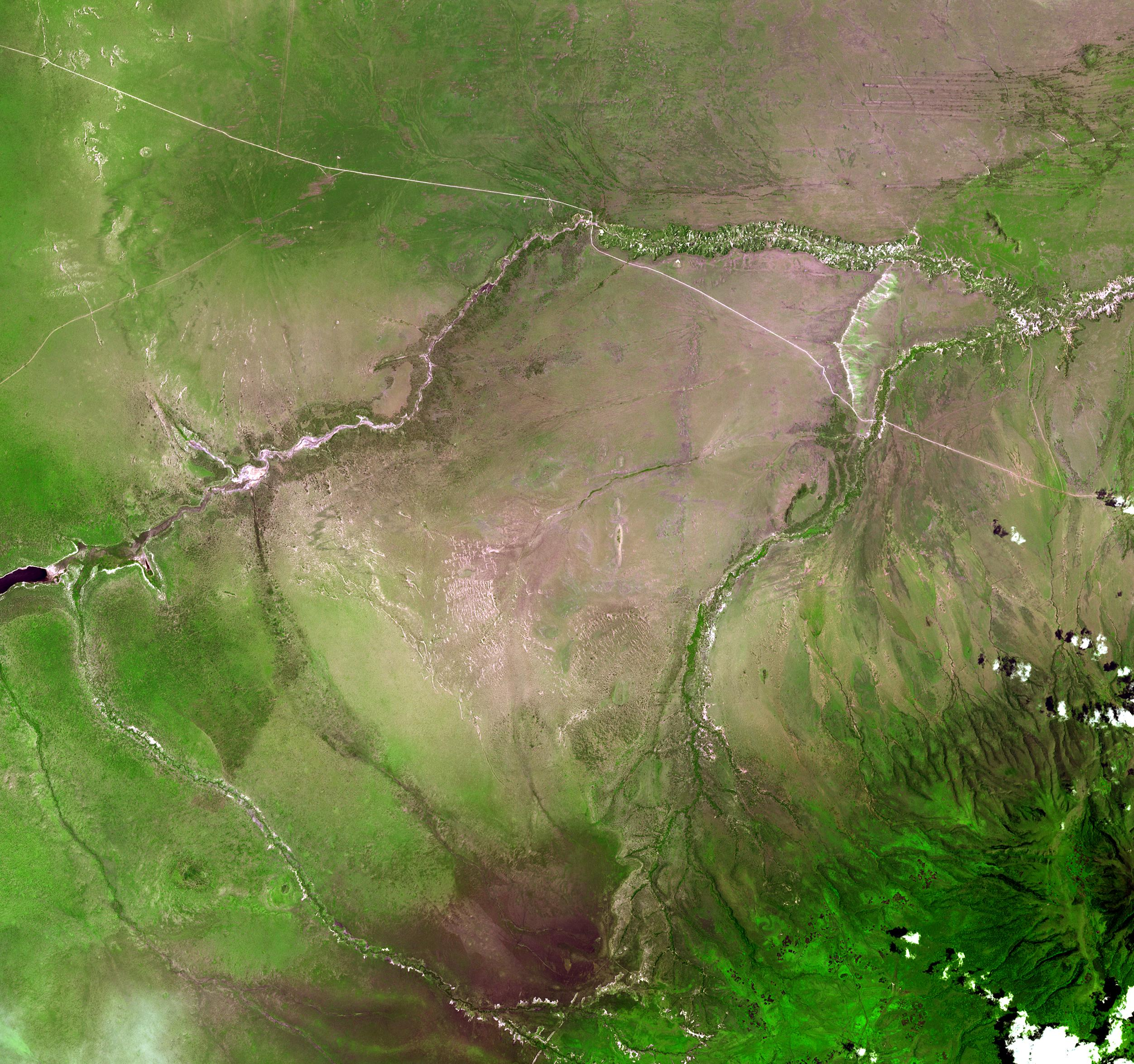 Olduvai Gorge, Tanzania from space image description here Image Courtesy: NASA/GSFC/METI/ERSDAC/JAROS, and U.S./Japan ASTER Science Team